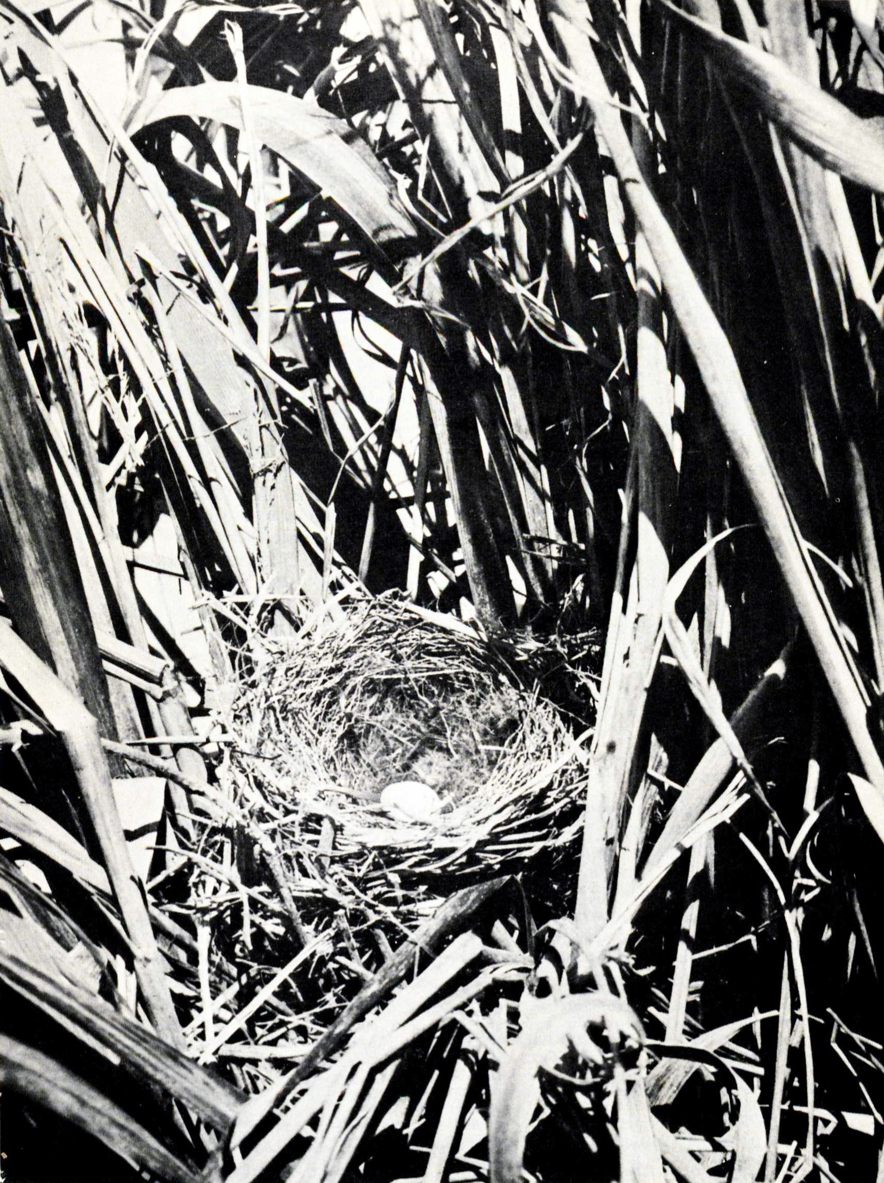 Nest and eggs of Laysan Honey Eater / creeper (Himatione freethi) Photographed by Walter K. Fisher in May 1902.